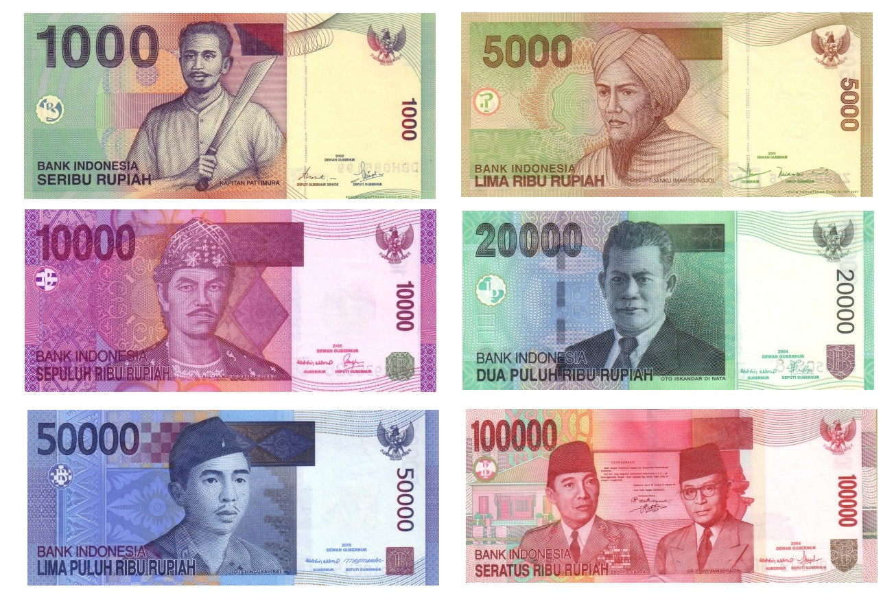 The Indonesian Rupiah (IDR) banknotes denominations issued after year 2000